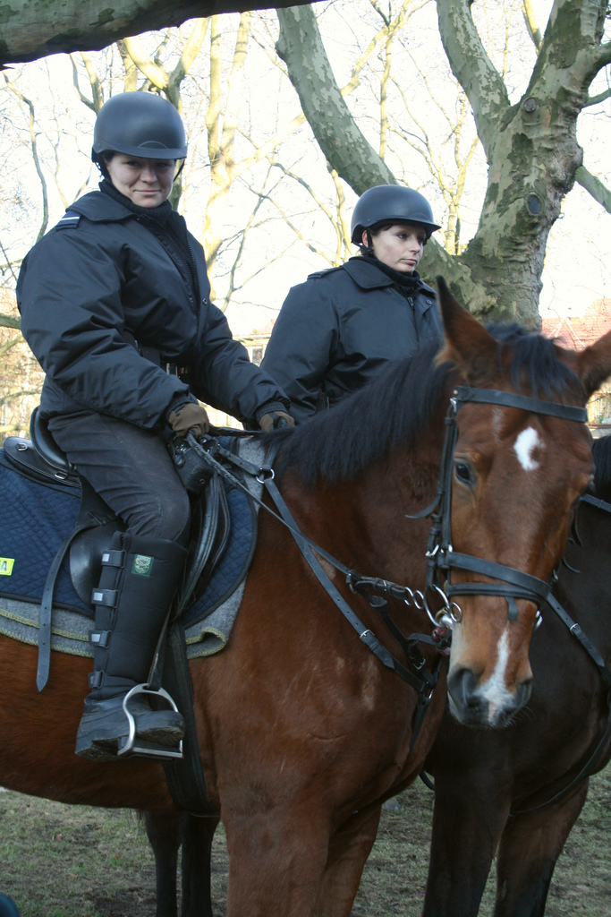 Mounted Policewomen in Szczecin.